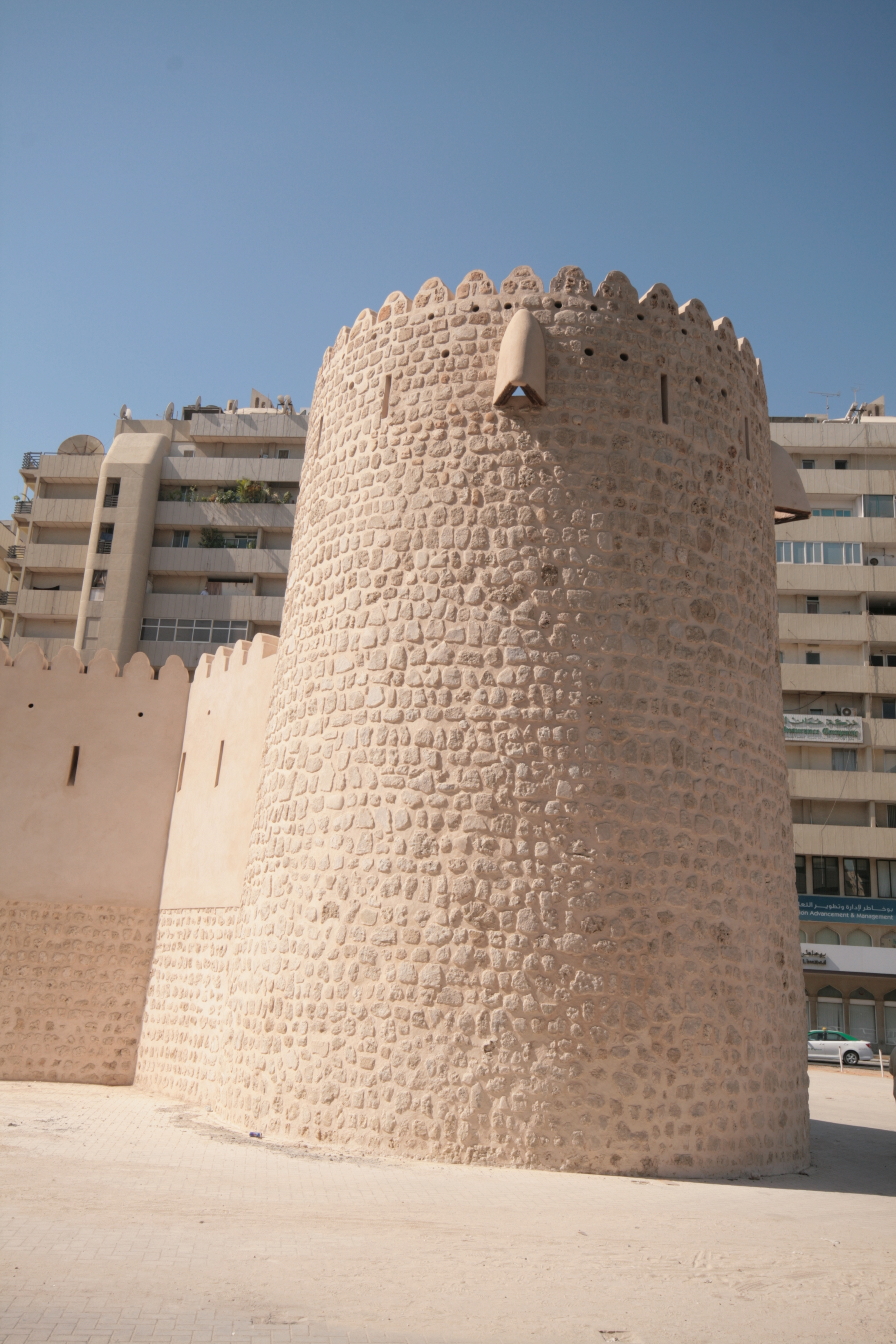 This is the 'bourj', the tower called Al Kubs which was all that remained of the original fort after its demolition by Sheikh Khalid Al Qasimi.